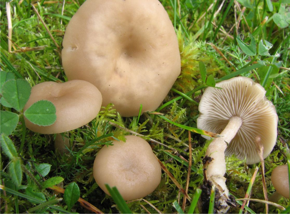 Clitocybe fragrans (With.) P. Kumm. Location: Hörnefors, Västerbotten, Sweden Observation Notes: Smells like anis For more information about this, see the observation page at Mushroom Observer.